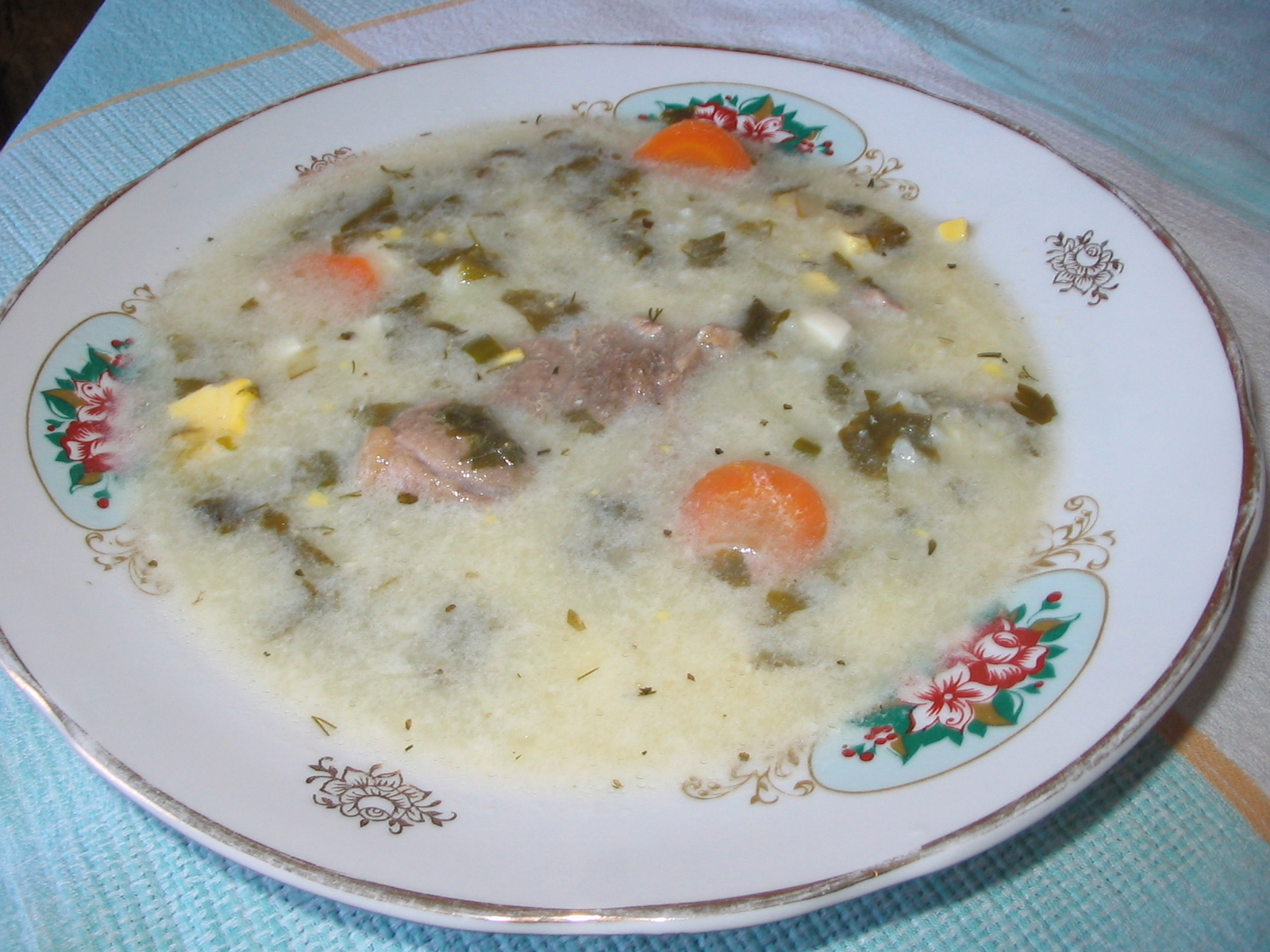 Sorrel soup